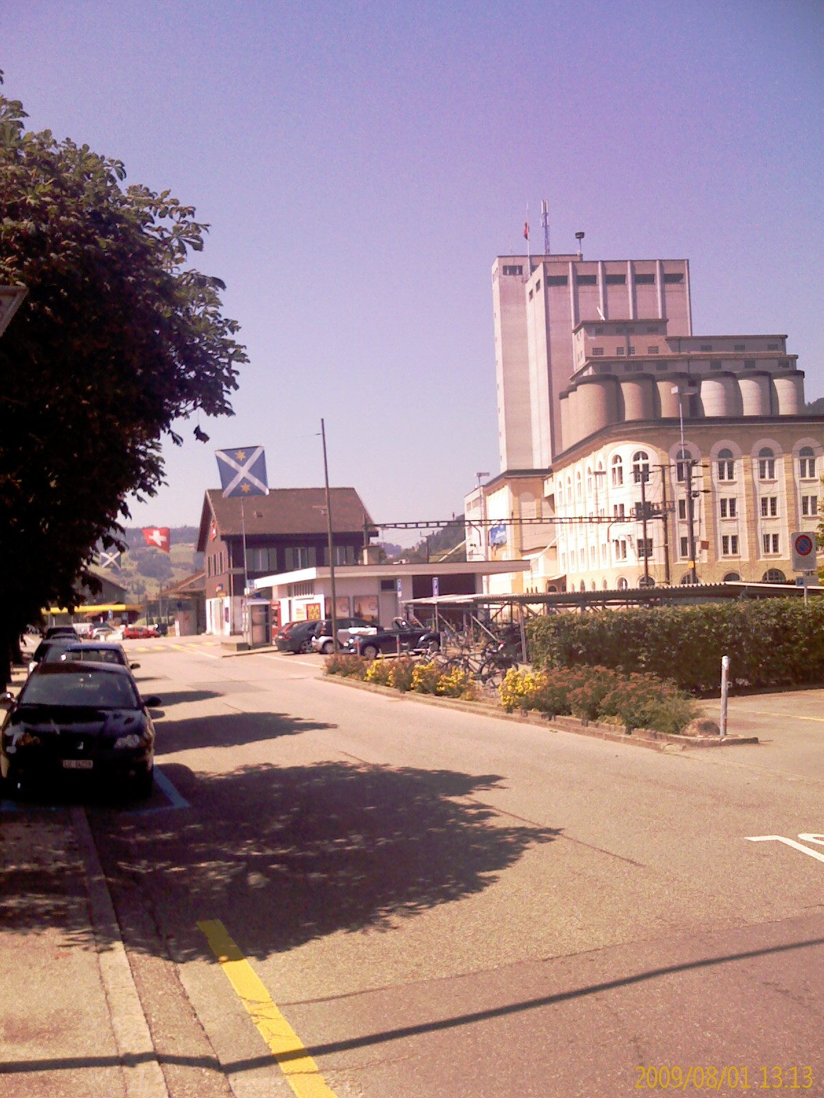 Train statition of Malters, canton of Luzern, SwitzerlandEsperanto: Stacidomo de Malters, Kantono Lucerno, Svislando